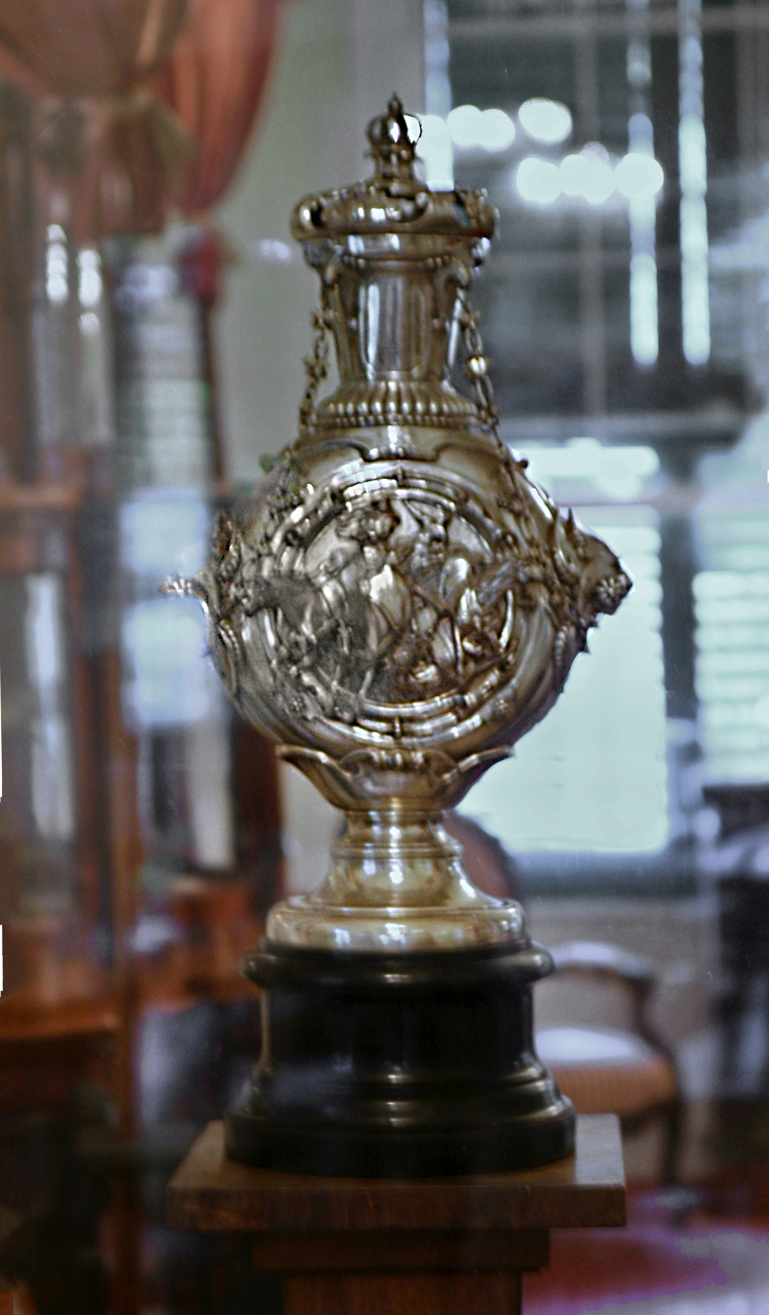 The Silver christening vessel was a gift from Queen Victoria of England, who had agreed to be Prince Albert Edward’s godmother. It was sent to Hawai’i with holy water for his baptism, but death intervened and it was never used. (No photography allowed inside the house)